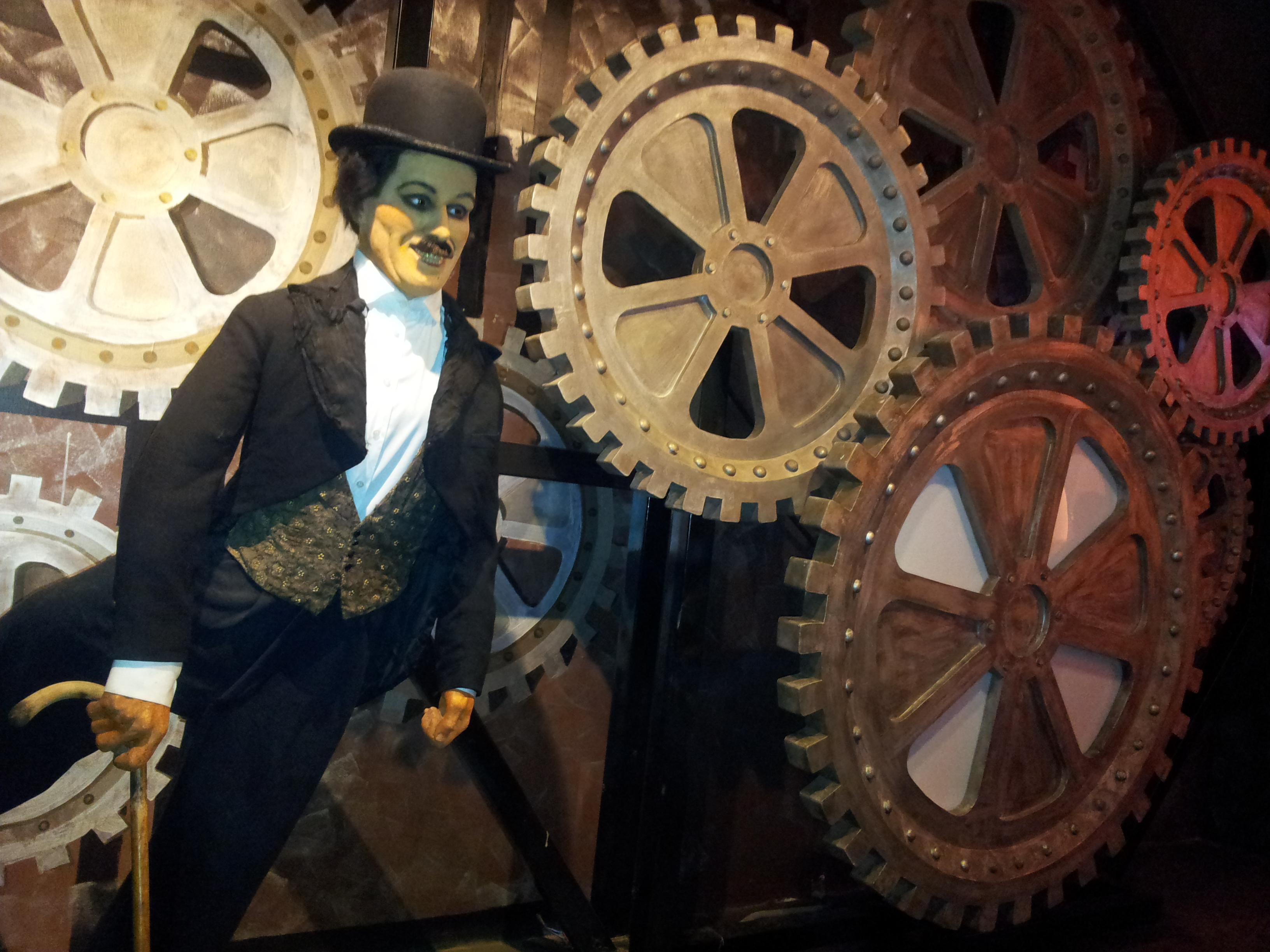 Snap from Wax Museum at Innovative Film city Bangalore